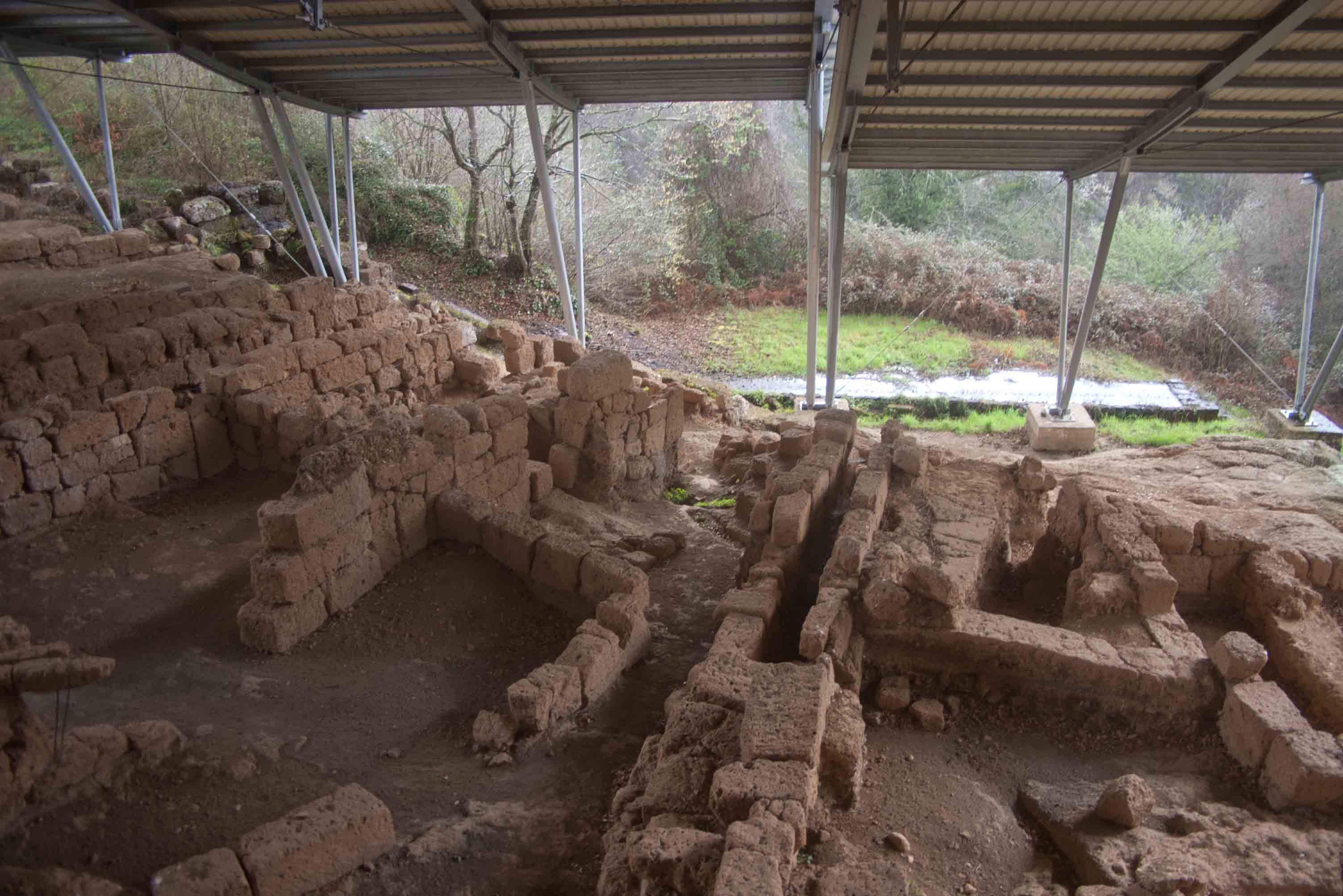 The Etruscan houses and workshops in the Borgo area of San Giovenale, excavated by the Swedish Institute in Rome.